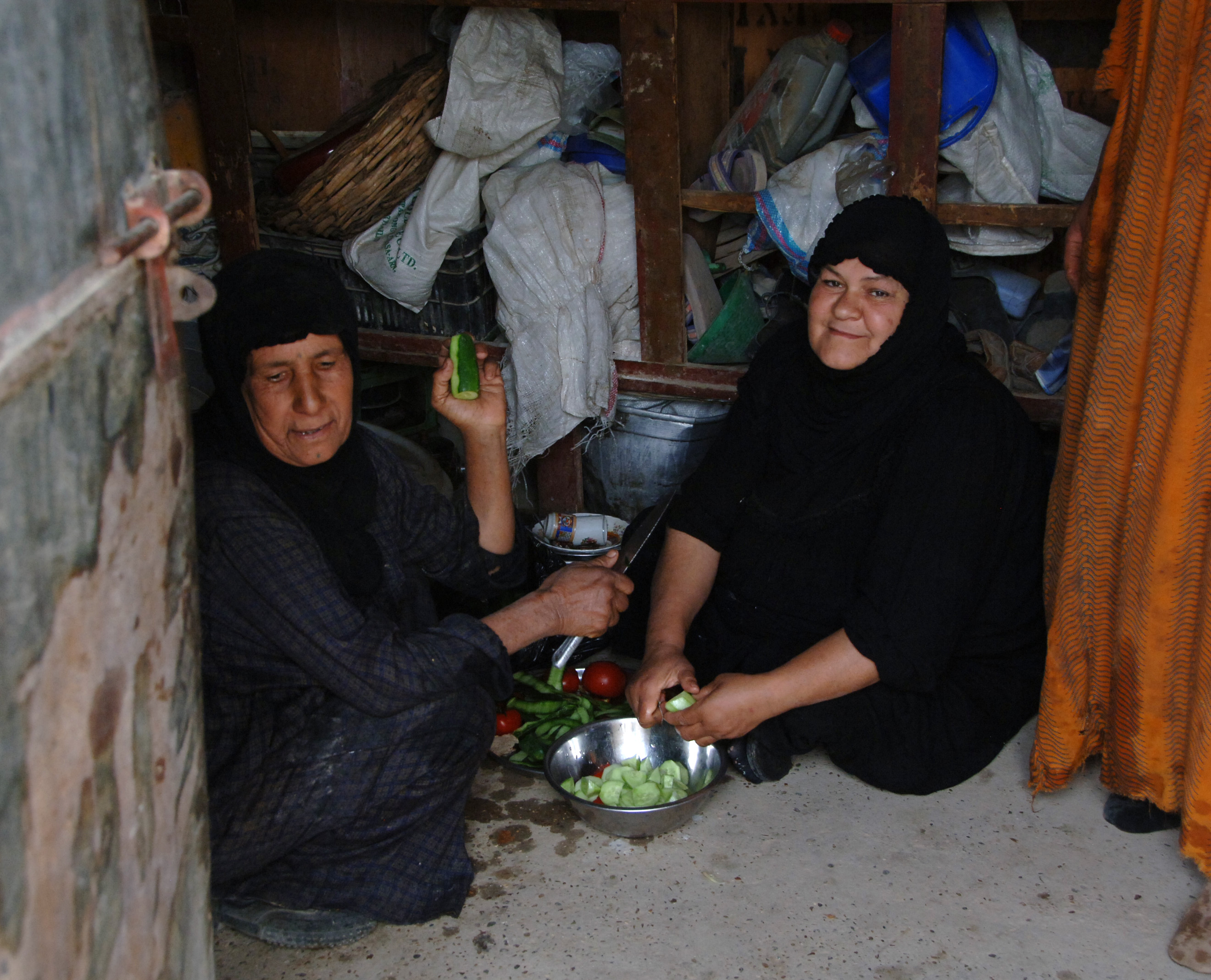 Iraqi women in ther kitchen preparing a meal for a luncheon her family is hosting for US Army personnel from Outpost Gator. Minari Village, near Iskandariyah, Babil Province, Iraq.